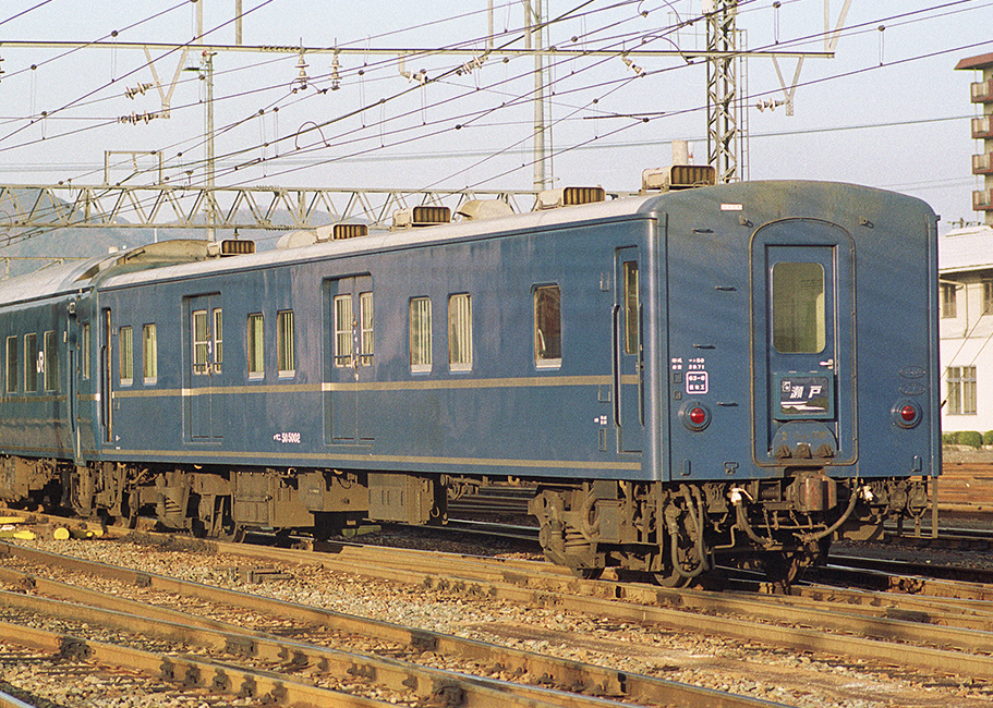 A JR West MaNi 50 luggage van, number MaNi 50-5002, at the end of a Seto sleeping car service at Takamatsu Station